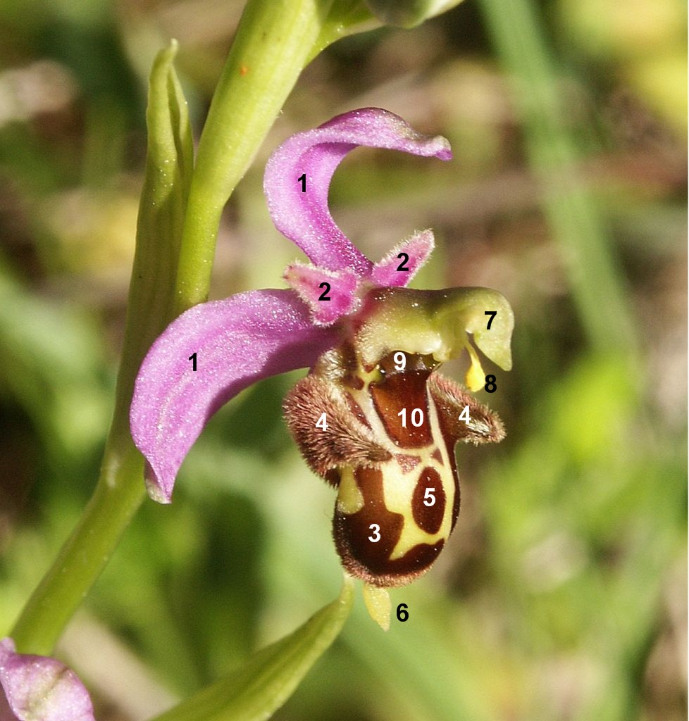 Description: Ophrys × albertiana, after a picture taken by BerndH, adapted by Johan N Details: 1: buitenste bloemdekbladen; 2: binnenste bloemdekbladen; 3: lip - middenlob; 4: lip - zijlobben; 5: speculum; 6: aanhangseltje; 7: gynostemium; 8: pollinia (stuifmeelklompjes); 9: Stigmatic cave with pseudo-eyes; 10: Basal field Original date: 26. May 2005. Modified 04/03/2007